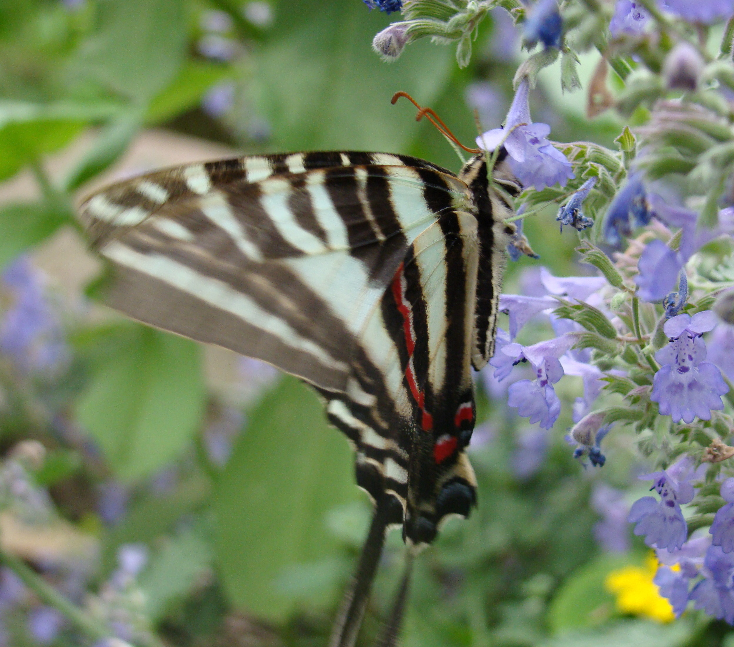 Picture of a Zebra Swallowtail (Eurytides marcellus) taken at the Hershey Gardens Butterfly house.